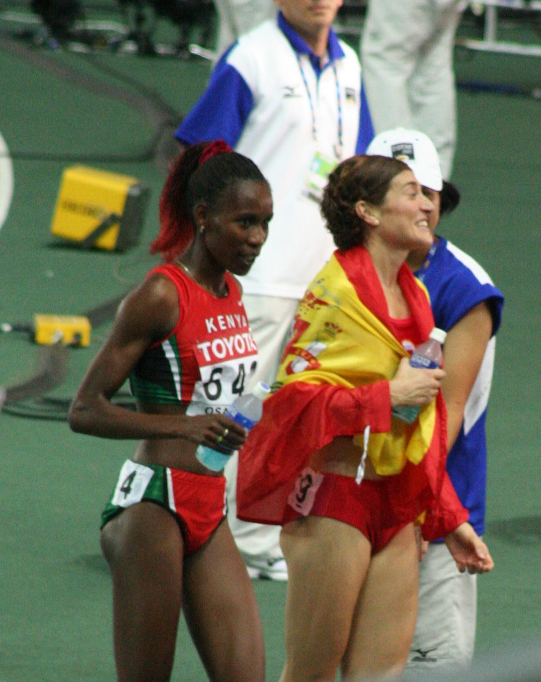 World Athletics Championships 2007 in Osaka - after the women's 800 metres final - winner Janeth Jepkosgei (left) and third placed Mayte Martinez